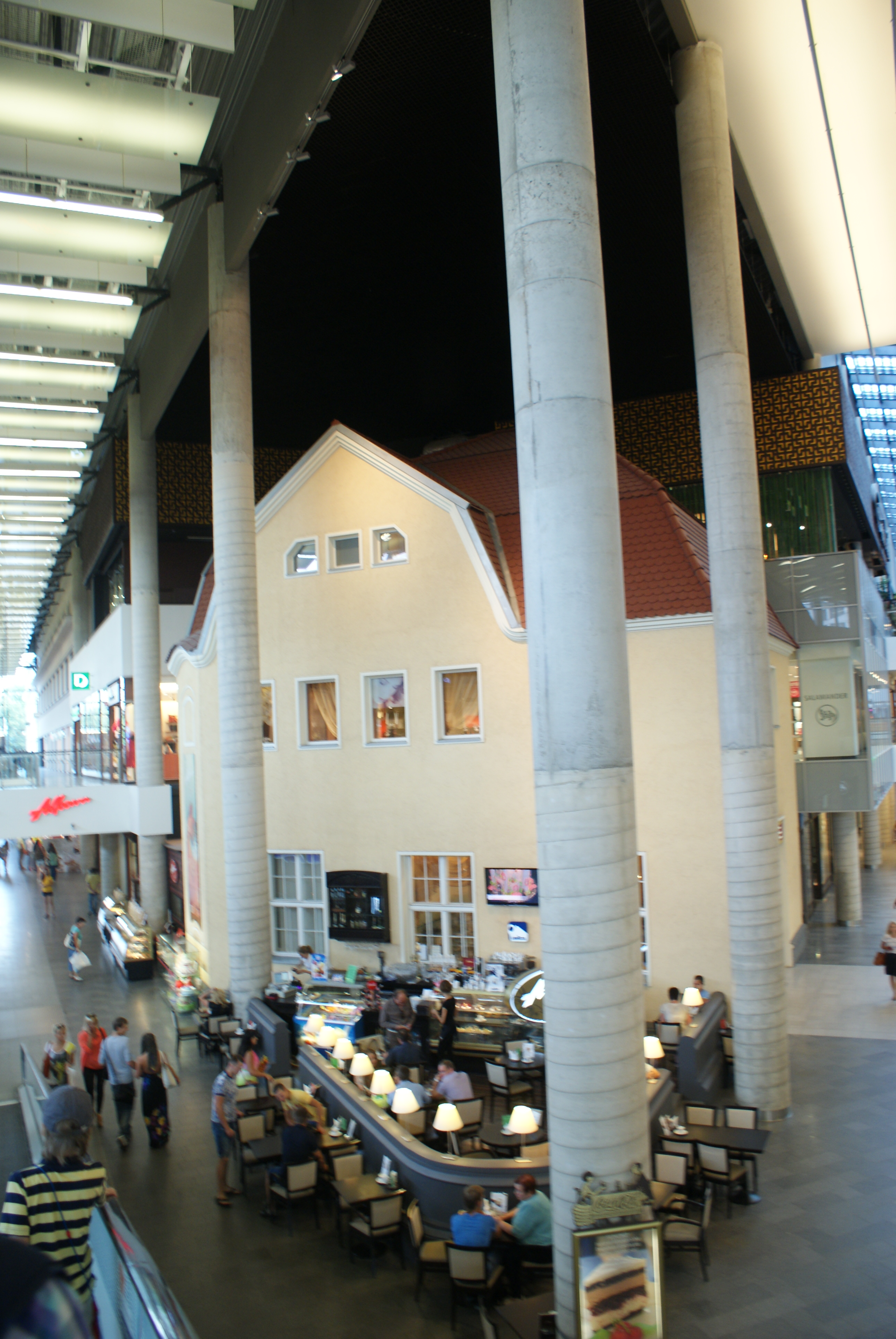 Shopping mall Akropolis in Kaunas